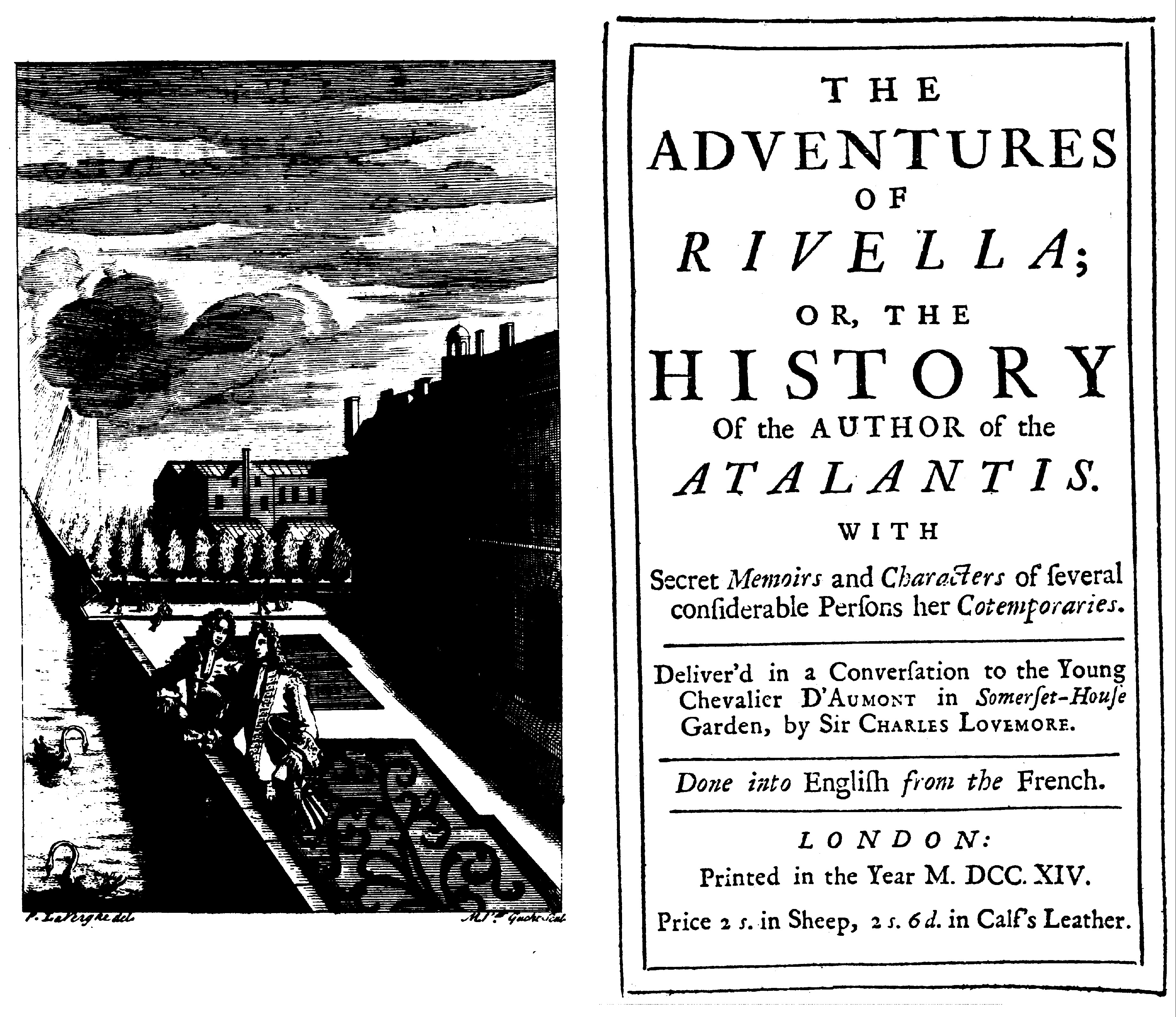 Frontispiece and title cover of Delarivier Manley's Adventures of Rivella (London: Edmund Curll, 1714).